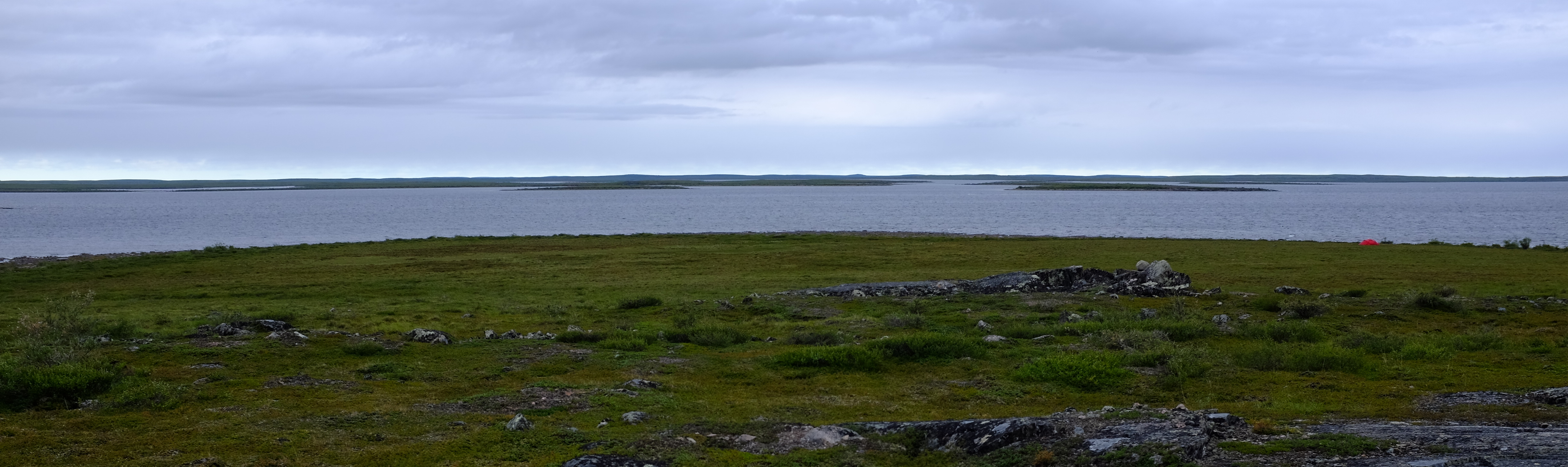 Early on Angikuni lake, when going down the Kazan River